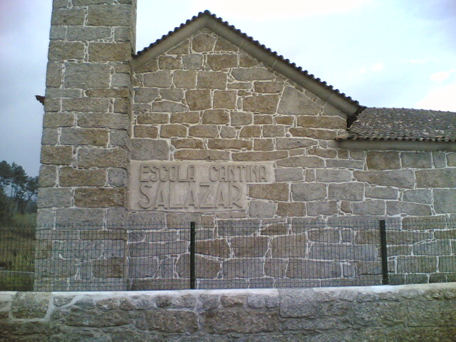 School at Vimieiro, Santa Comba Dão, Portugal.